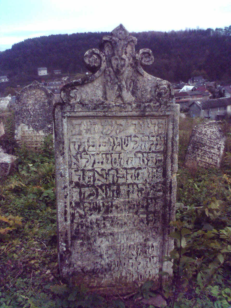 Buchach jewish cemetery, 1.11.2017